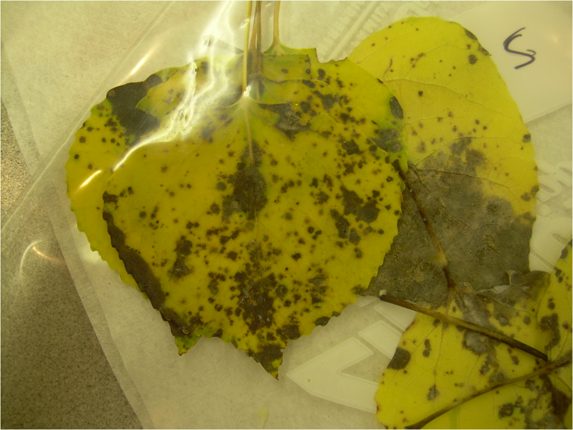 Alternaria leaf spot on quaking aspen leaves. Identified using Barnett, H. L. & Hunter, B. B. (1998) Illustrated Genera of Imperfect Fungi. APS Press: St. Paul, MN; pp. 132–3 ISBN 0-89054-192-2. Recovered from quaking aspen (Populus tremuloides Michx.). Host status confirmed using Farr, D. F., Bills, G. F., Chamuris, G. P., & Rossman, A. Y. (1995) Fungi on Plants and Plant Products in the United States. APS Press: St. Paul, MN; pp. 498–505 ISBN 0-89054-099-3.